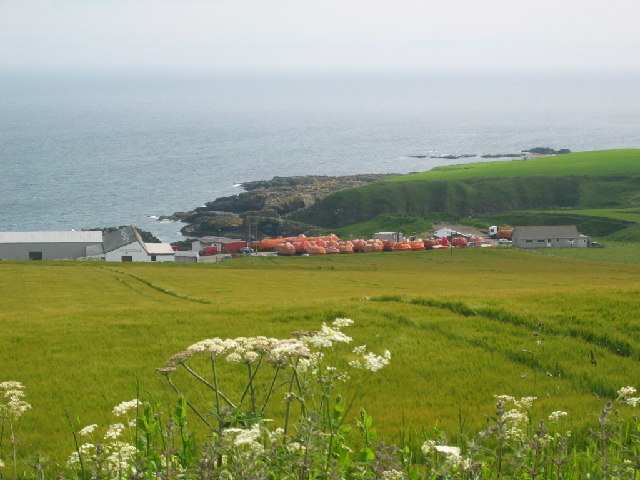 Survival craft for the offshore industry collected for inspection at Findon, Aberdeenshire